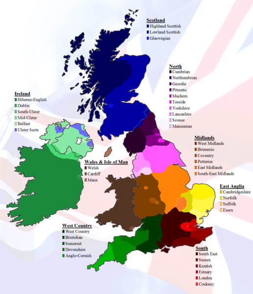 Various accents of the British Isles